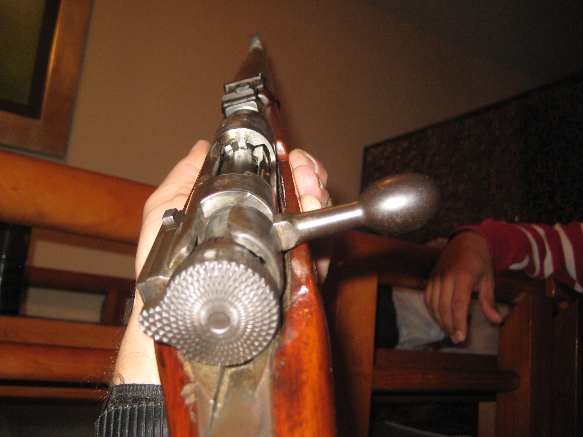 Rear view of Japanese Arisaka Type 38 rifle